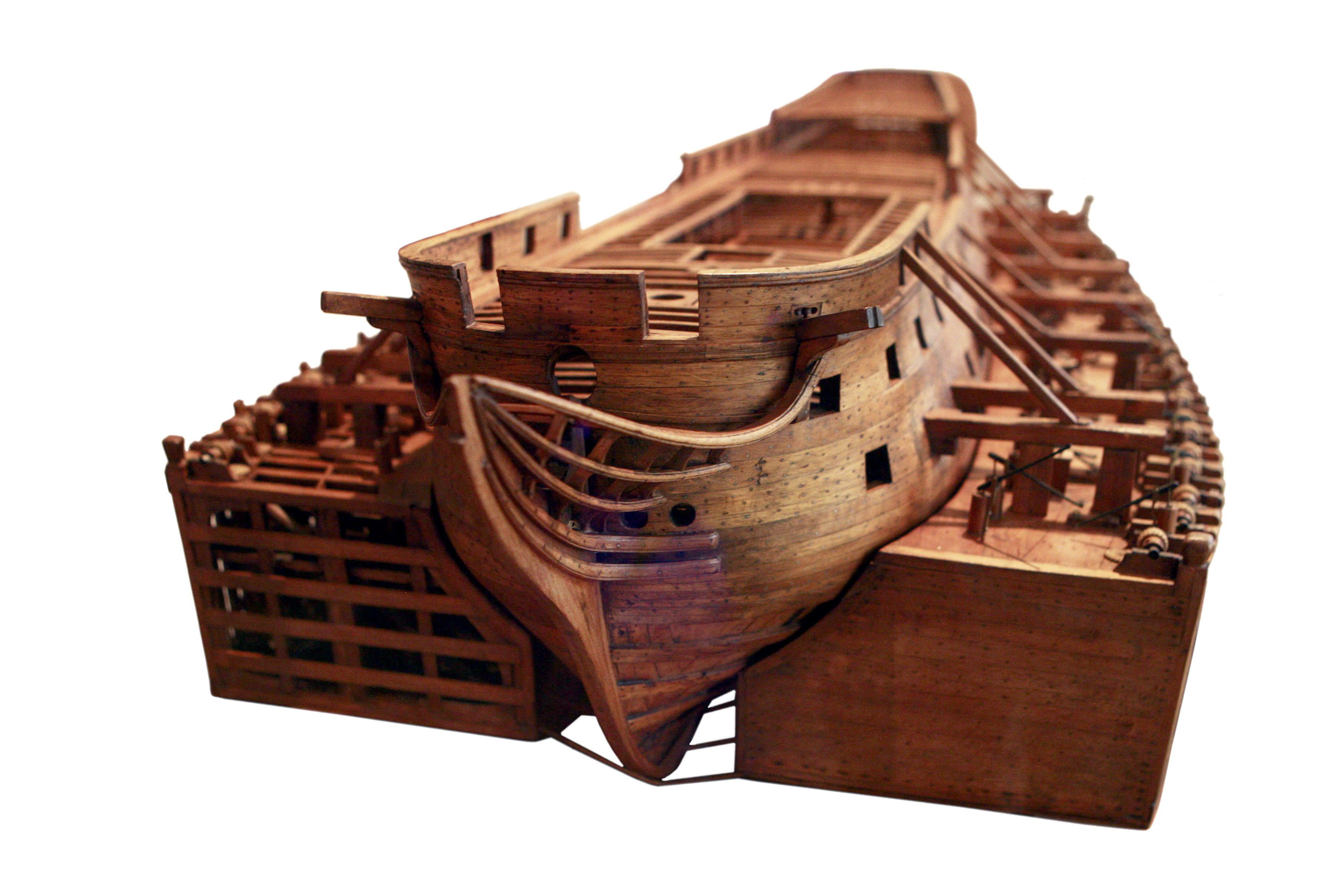 74-gun Téméraire class ship of the line of the line supported by a special-purpose floating dock. This system was used to allow large units to exit Venice harbour in spite of its shallow waters. This system, called "chameau" ("camel"), was used by two ships: Rivoli and Mont Saint-Bernard. Access number 27 CN 42 at the Naval museum of Toulon.